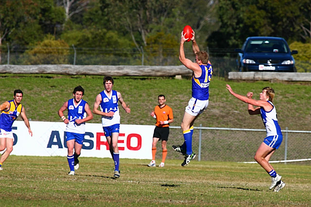 Taking a mark, Australian Rules Football photo by Mike Funnell (mfunnell) 08JUL2006, East Coast Eagles vs Campbelltown, in western Sydney.